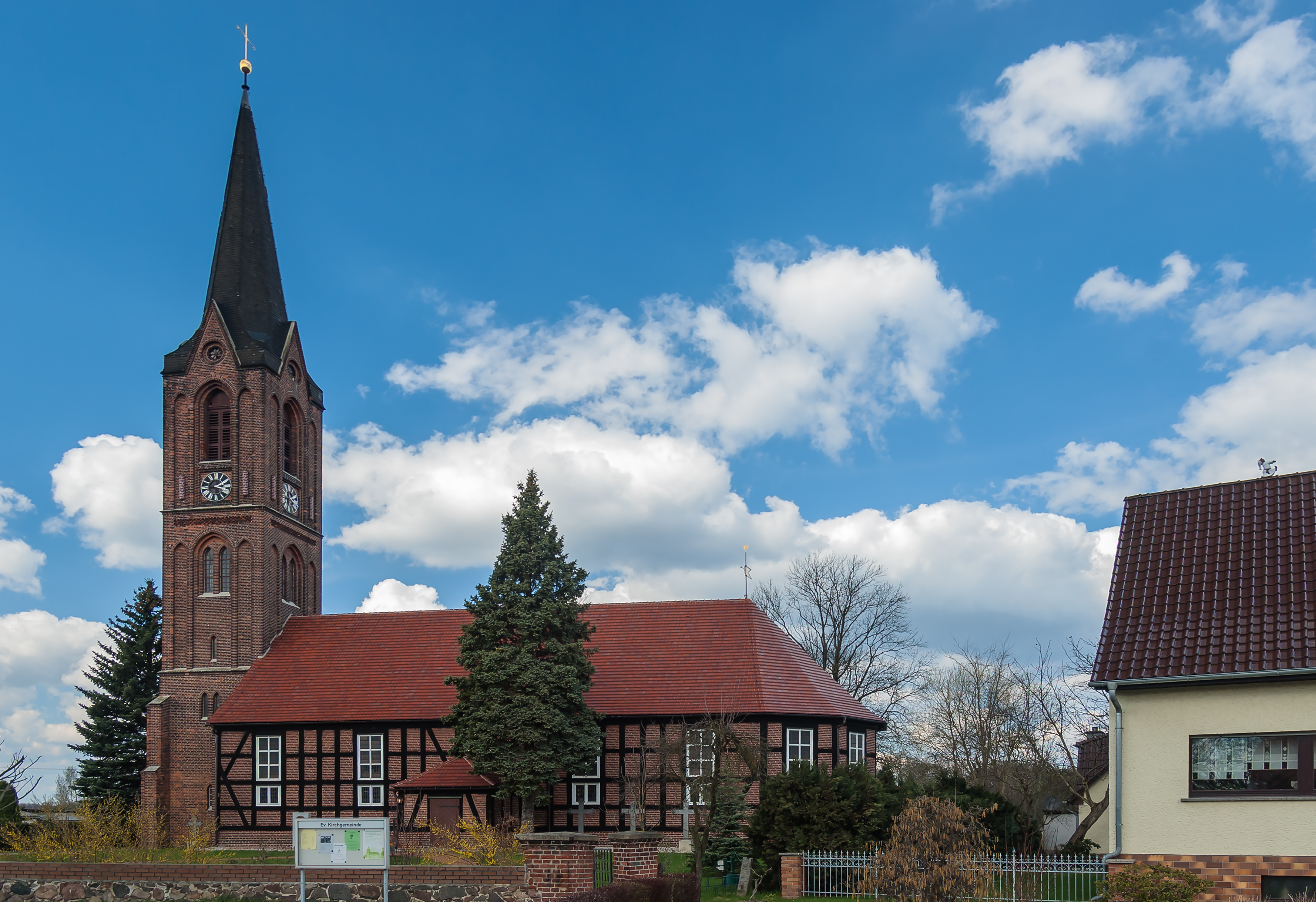 Church of Dissen, Brandenburg, Germany